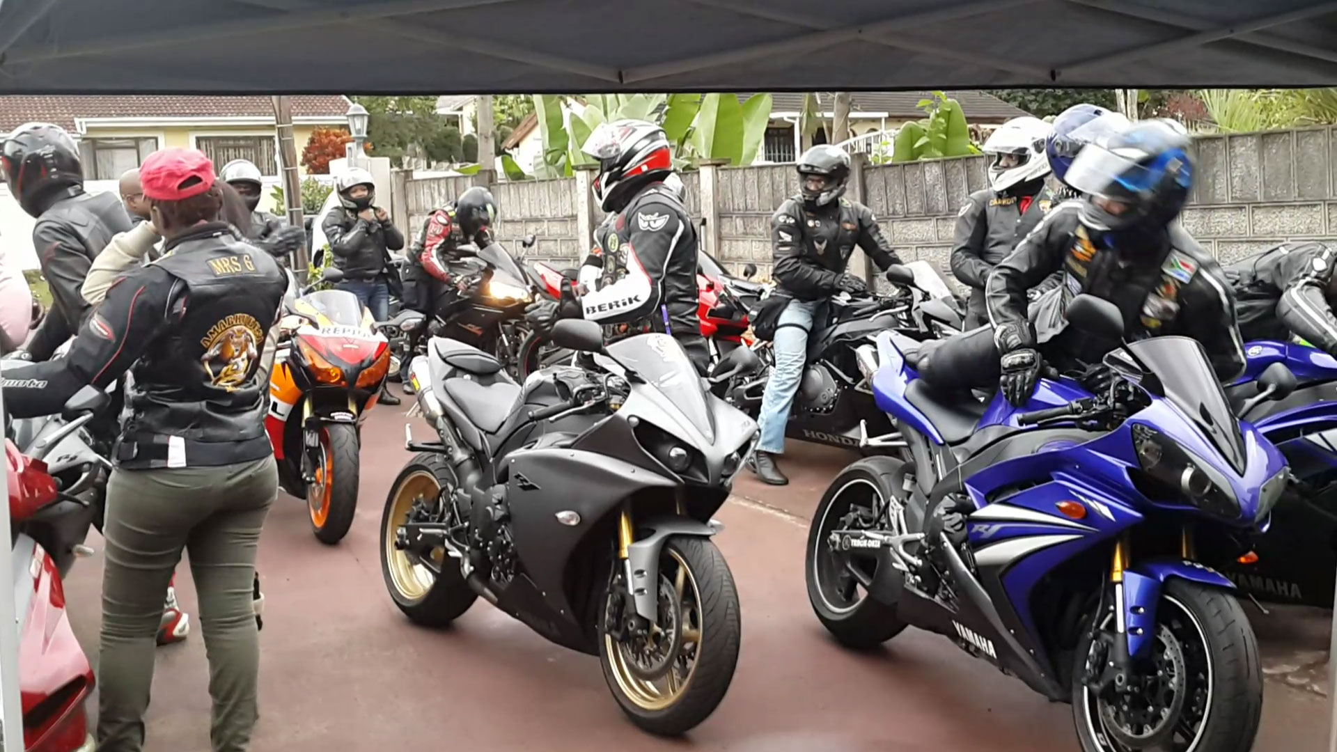 A photo I took of a Bikers group in Durban South Africa